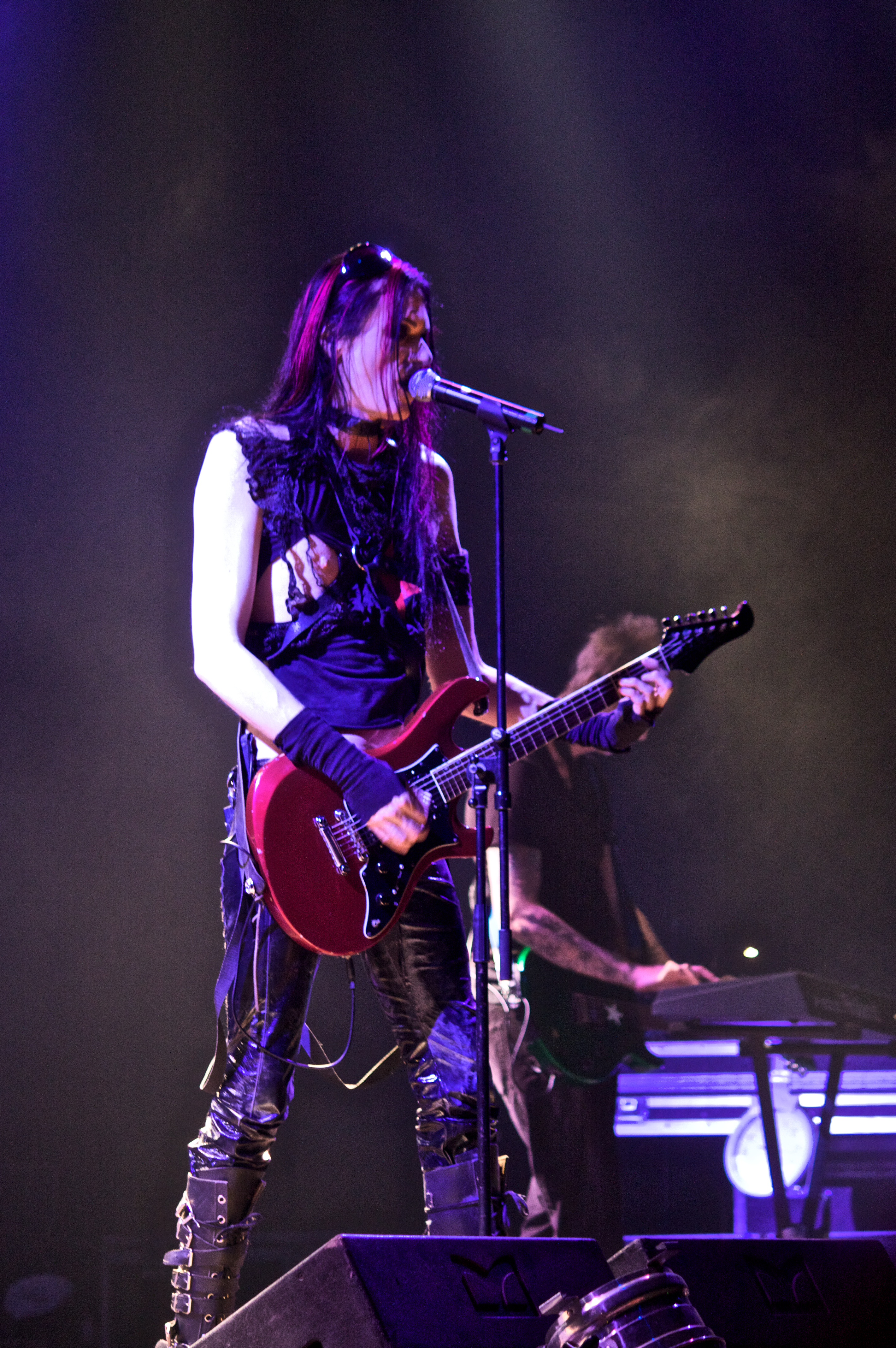 London After Midnight, Live at the Agra Hall, Leipzig, Germany. WGT2008